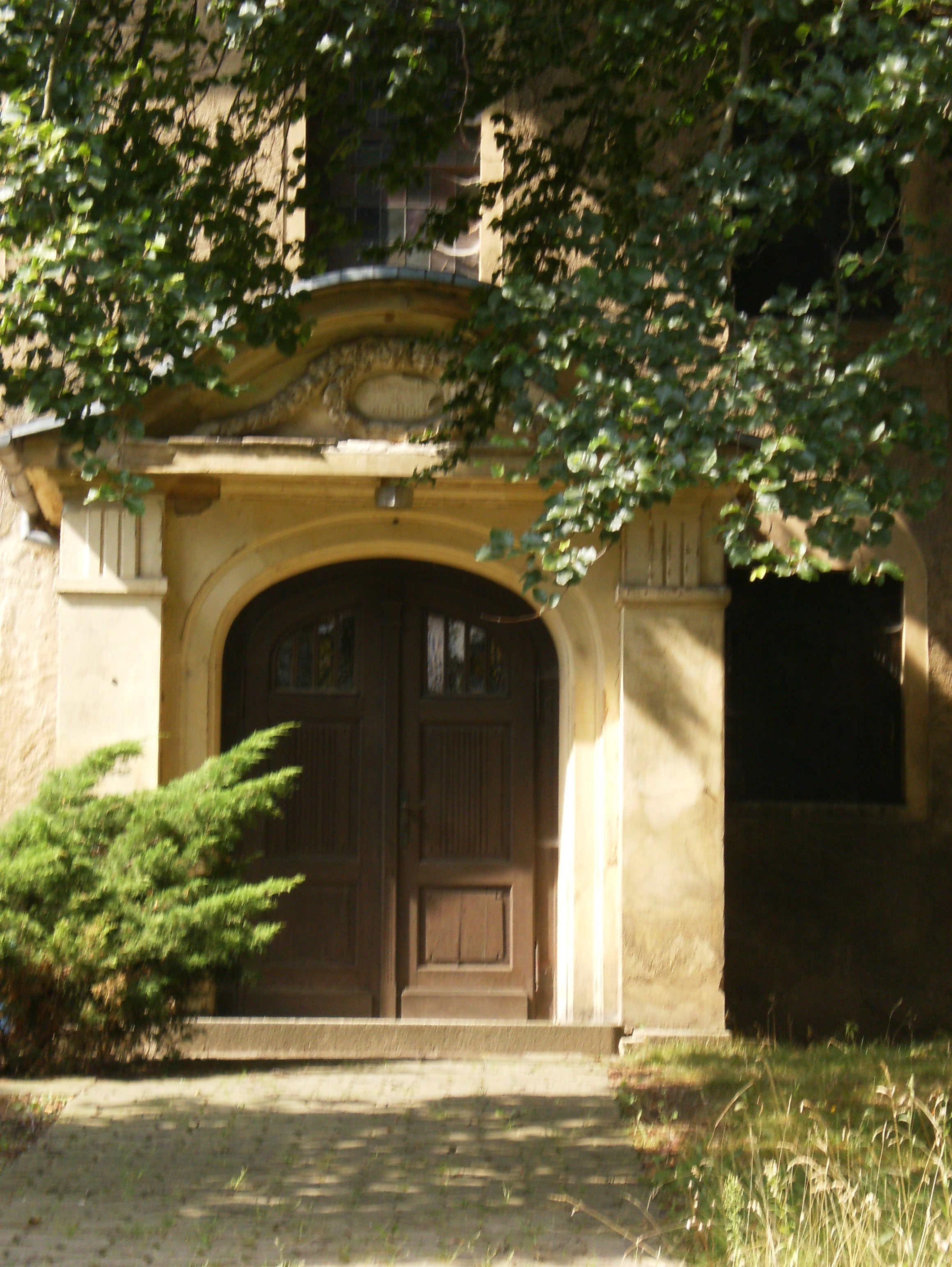 Gera Roschütz, church portal.